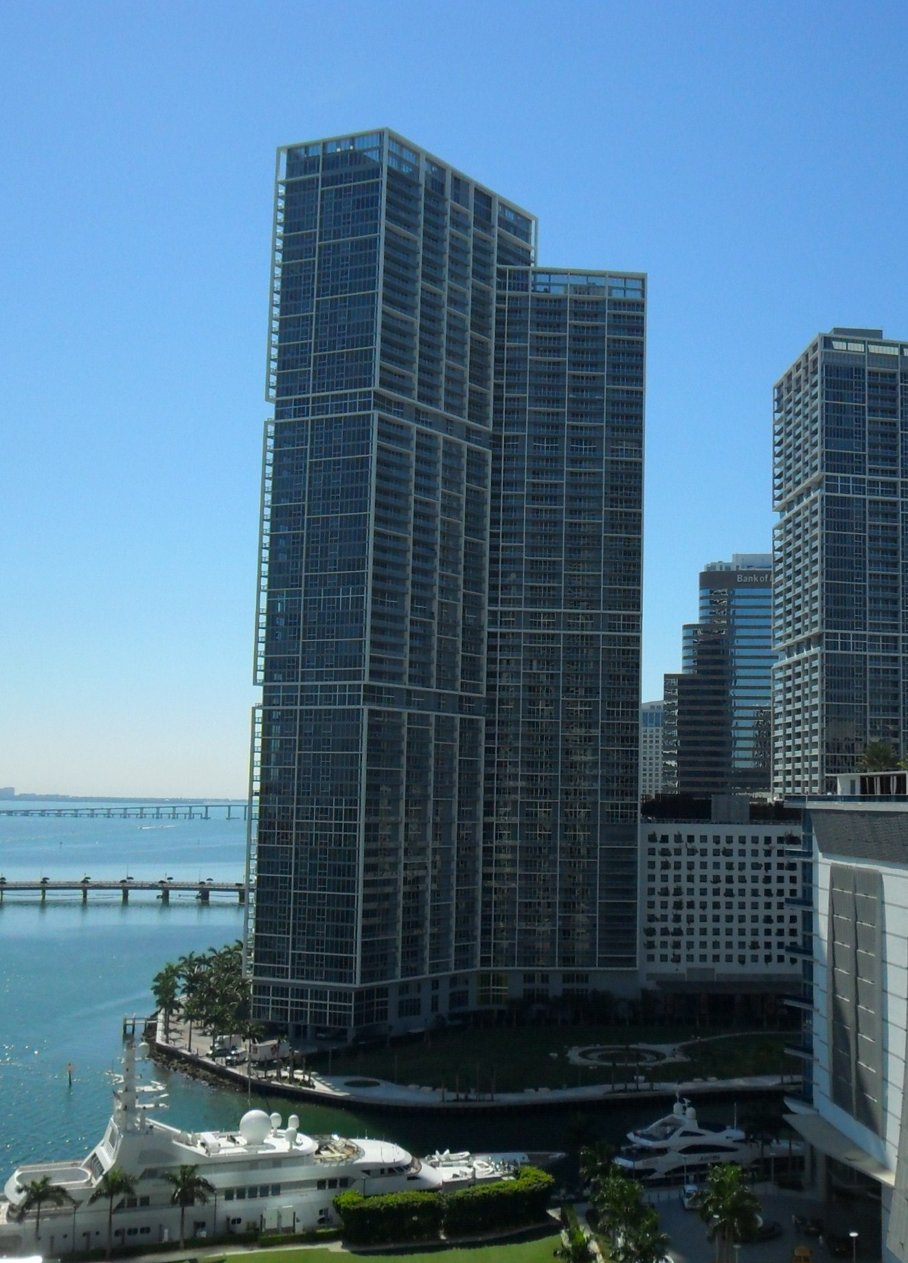 Icon Brickell North Tower taken from the 14th floor of the Wachovia Financial Center parking annex.